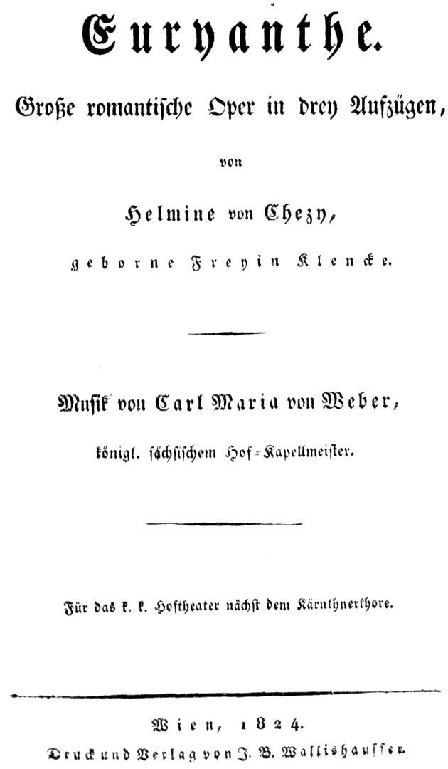 Carl Maria von Weber - Euryanthe - titlepage of the libretto, Vienna 1824